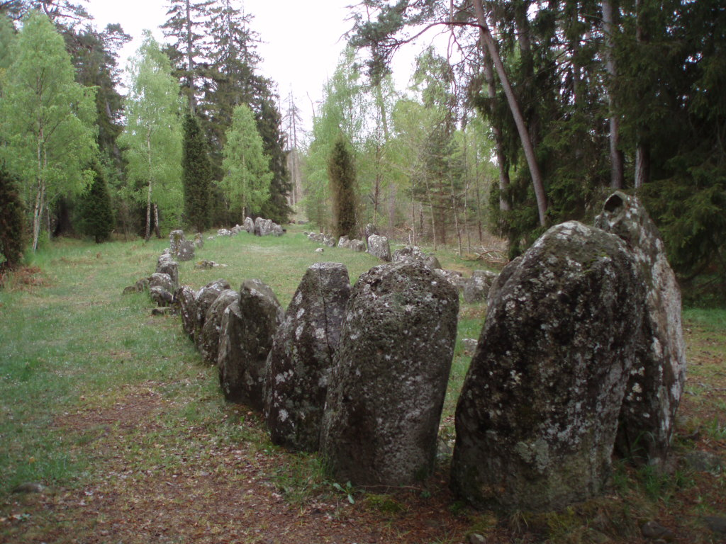 Gnisvärd stone circle seen from the road side.